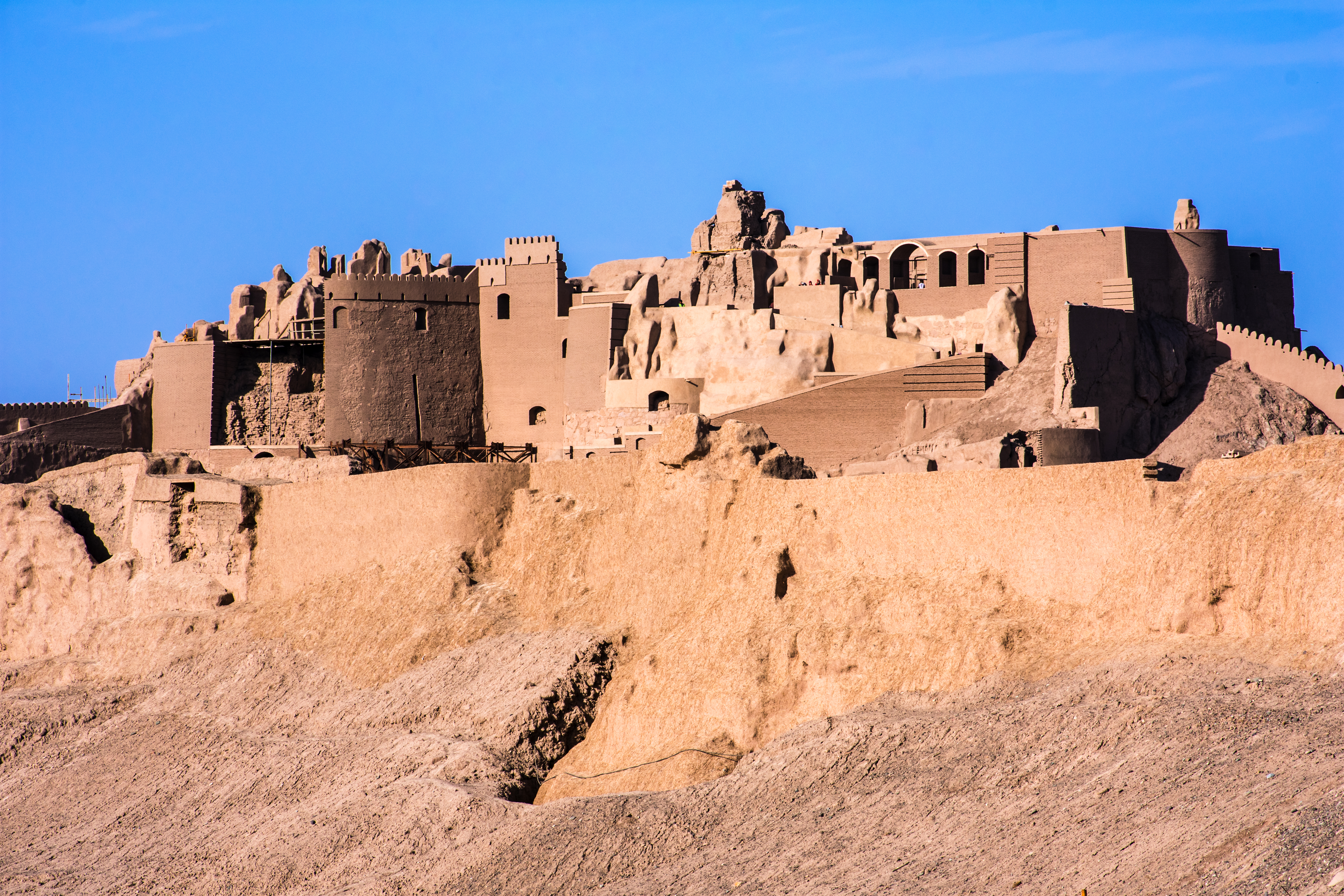 Arg e Bam is the largest adobe building in the world, located in Bam, a city in Kerman Province of southeastern Iran. It is listed by UNESCO as part of the World Heritage Site "Bam and its Cultural Landscape". Geographical Coordination : 29.115273, 58.369388 The photo was taken at 26-th of March 2018 , 14 years and 3 months after the earth-quick which destroyed almost completely the site. More Detail on